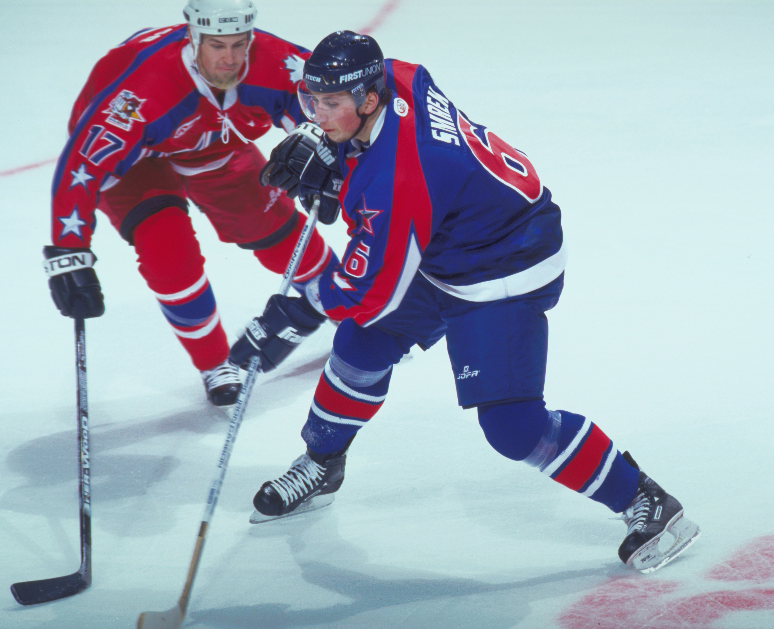 hhof0293